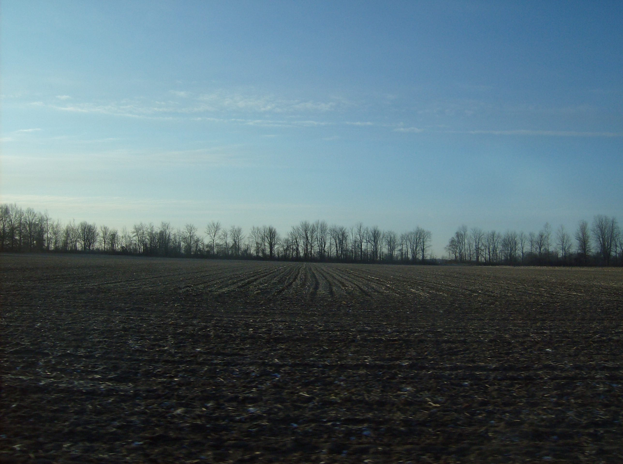 Farmland in eastern Tipton Township, Cass County, Indiana, United States. Picture taken southward from CR500S.